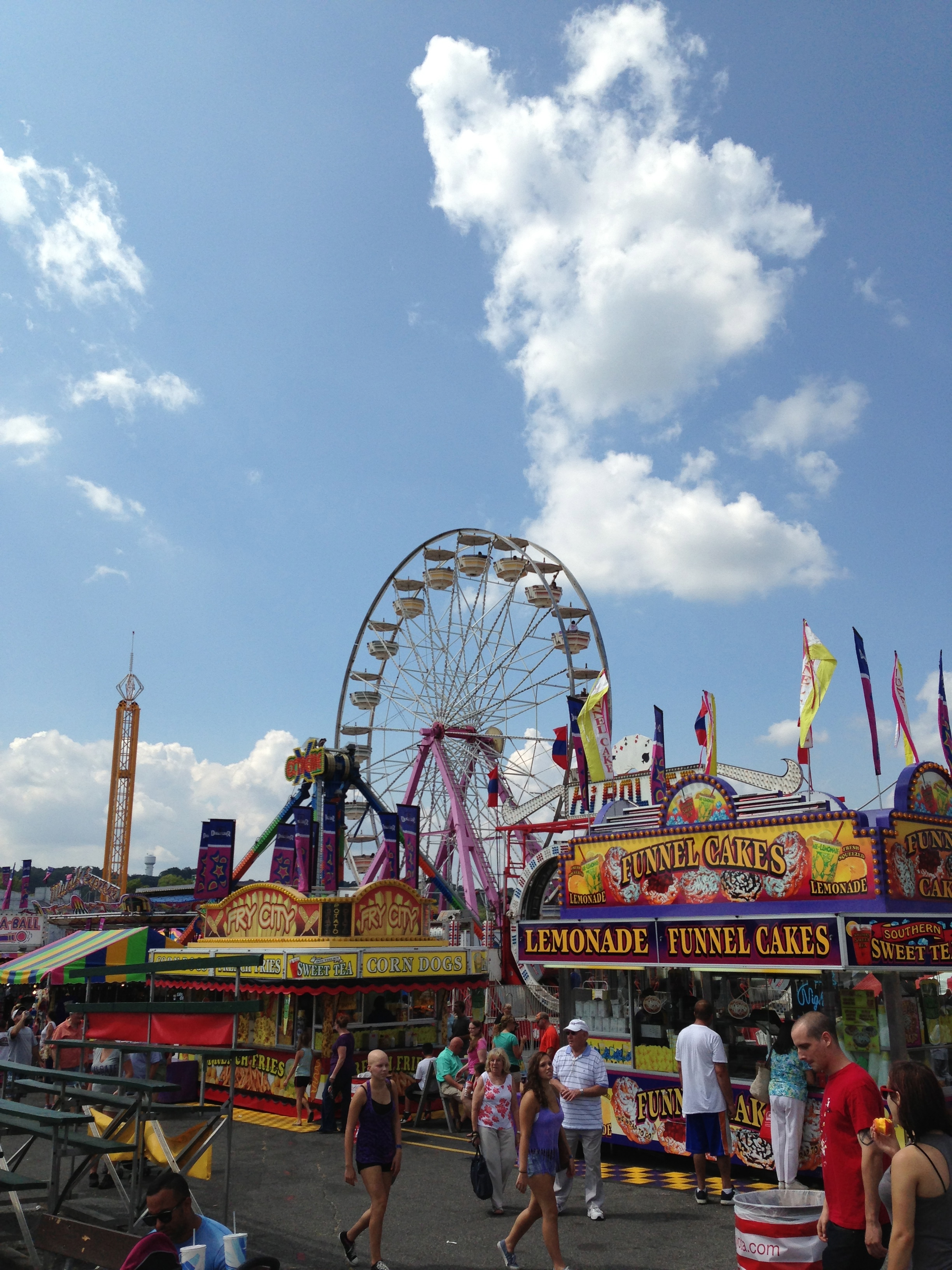 A photograph of the Maryland State Fair at the Timonium Fairgrounds in Timonium, Maryland on 2 September 2013